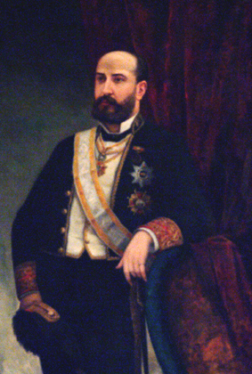 Juan Ulloa y Valera, Spanish politician of the nineteenth century